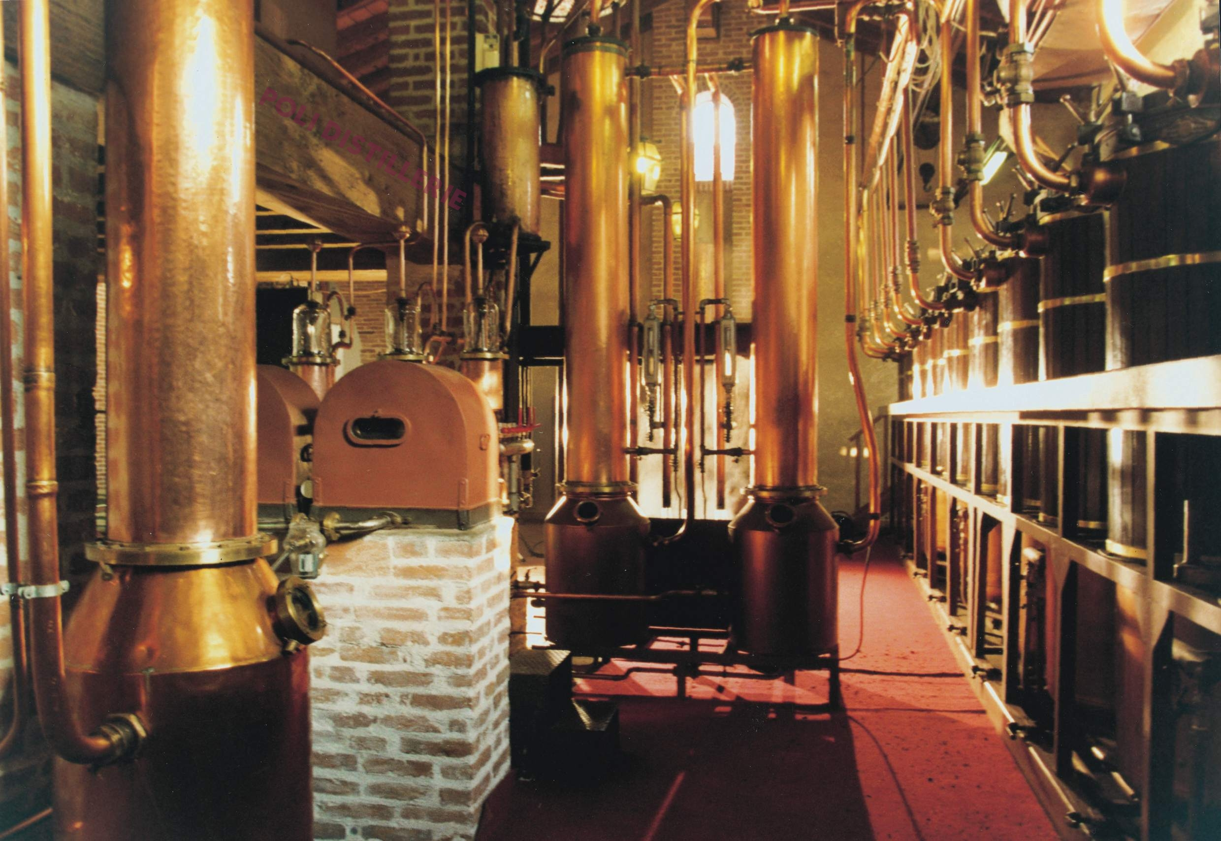 Poli Distillerie artisan alambic in the year 2000